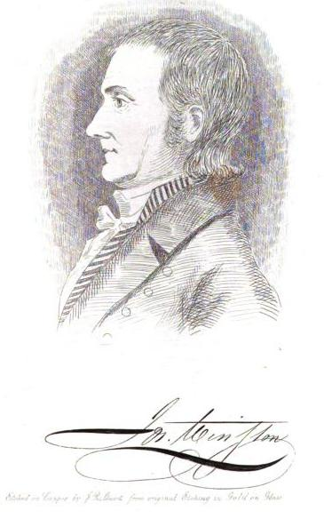 Portrait of Col. Joseph Winston of North Carolina, one of the heroes of the Battles of King's Mountain and Guilford Court House, North Carolina.